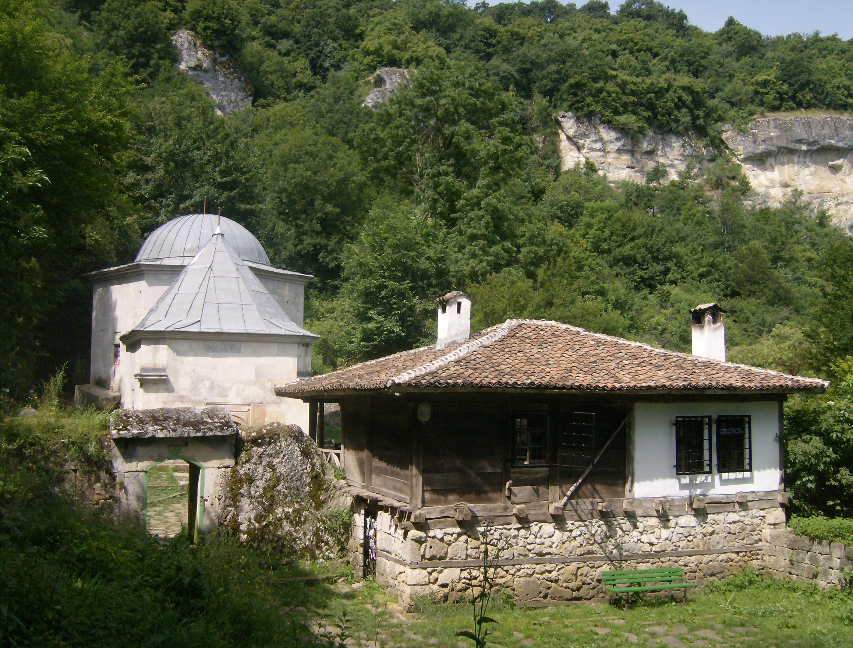 Teke